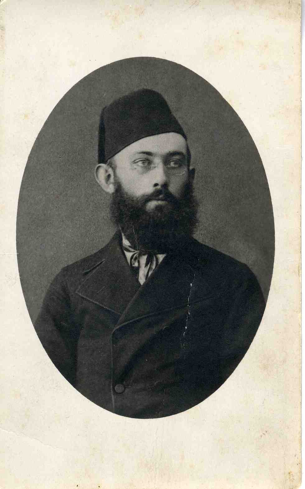 Zalman David Levontin, People of Israel